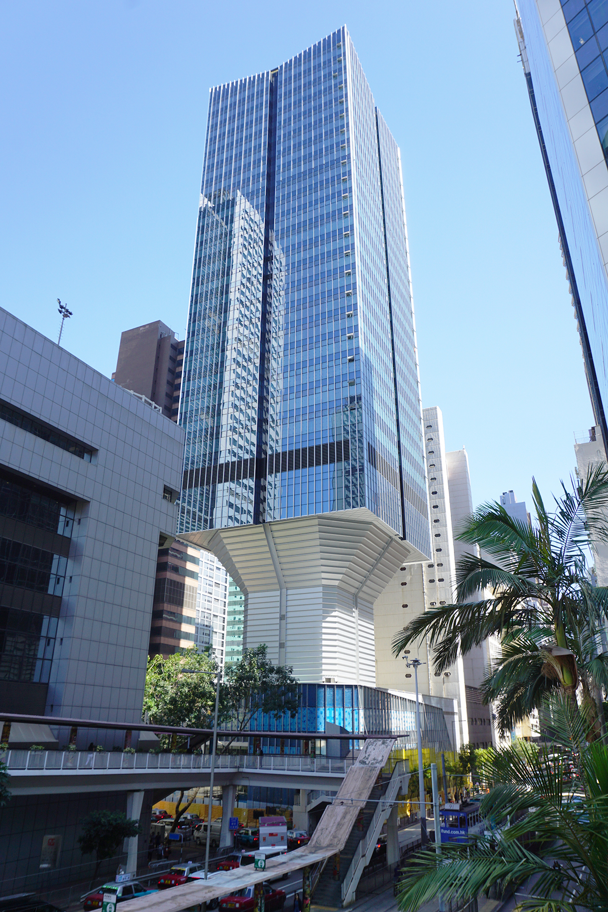 One Hennessy in Wan Chai, Hong Kong.